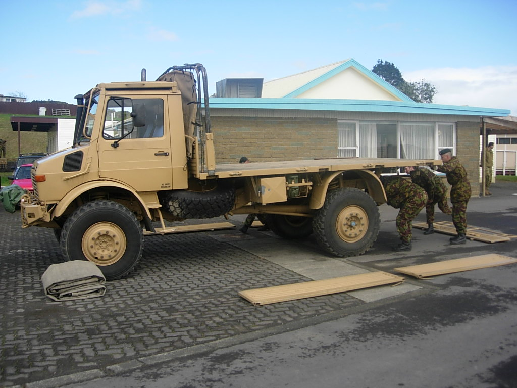 NZ Army driver trainees strip down a U1550L Unimog. Taken by myself in Ardmore.